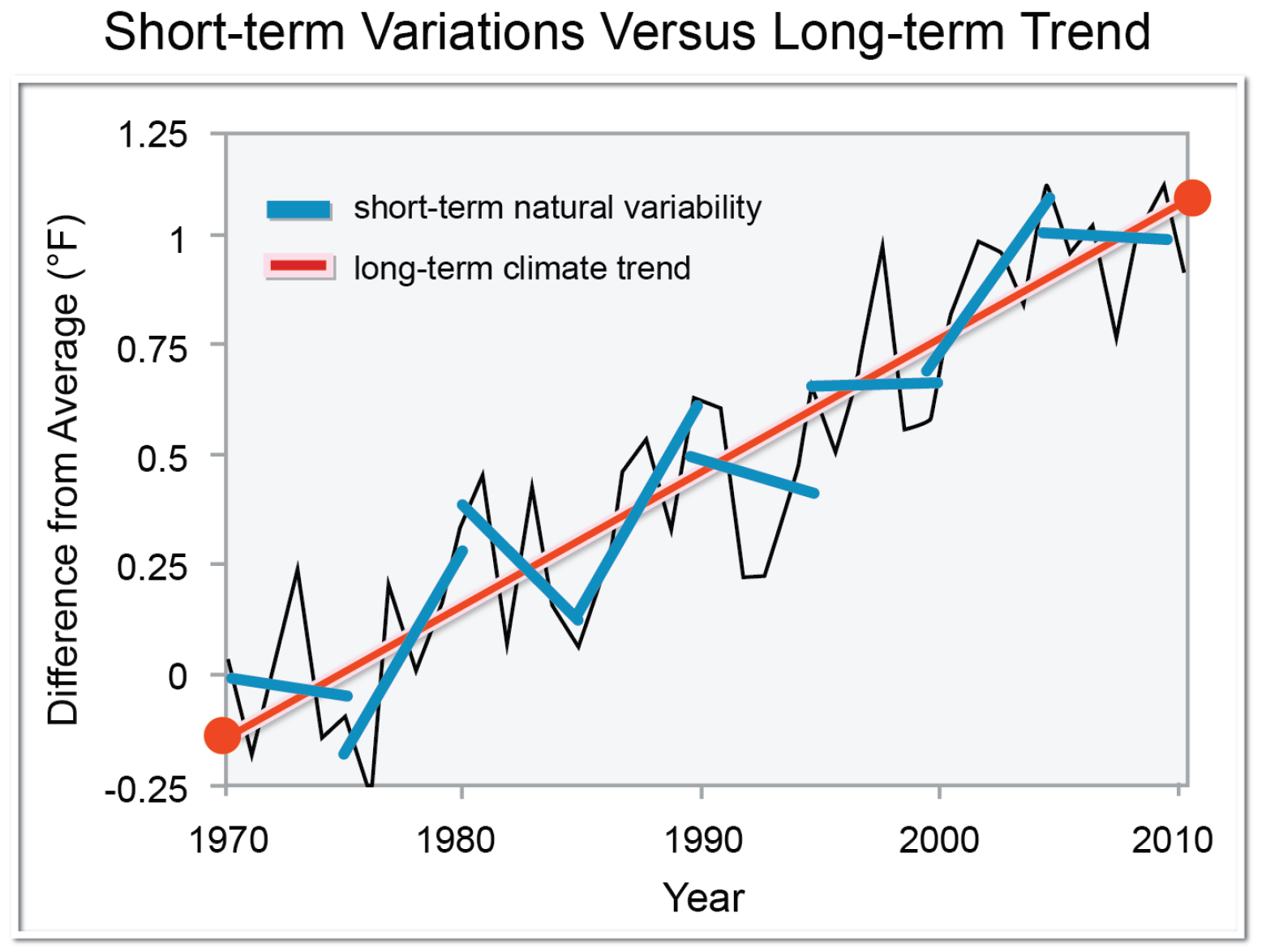 This graph shows how short-term variations occur in the global temperature record. However, the graph still shows a long-term trend of global warming. Climate change is defined as a change in the average conditions over periods of 30 years or more. On these time scales, global temperature continues to increase. This is shown on the graph as the red line. Over shorter time scales, however, natural variability (due to the effects of El Niño and La Niña events in the Pacific Ocean, for example, or volcanic eruptions or changes in energy from the Sun) can reduce the rate of warming or even create a temporary cooling. From 1970 to 2010, for example, global temperature trends taken at five-year intervals range from decreases to sharp increases. This is shown on the graph by the blue lines. The most recent five-year period, from 2005 to 2010, included the largest solar minimum experienced since the Little Ice Age of the late 1700s and also occurred during a period when natural cycles were causing greater than average amounts of heat to be taken up by the oceans. These natural factors contributed to a temporary downward trend in temperature. The graph is based on measurement data from NASA-GISS. This description is based on edited text from the cited public-domain source (Walsh, et al., 2013).